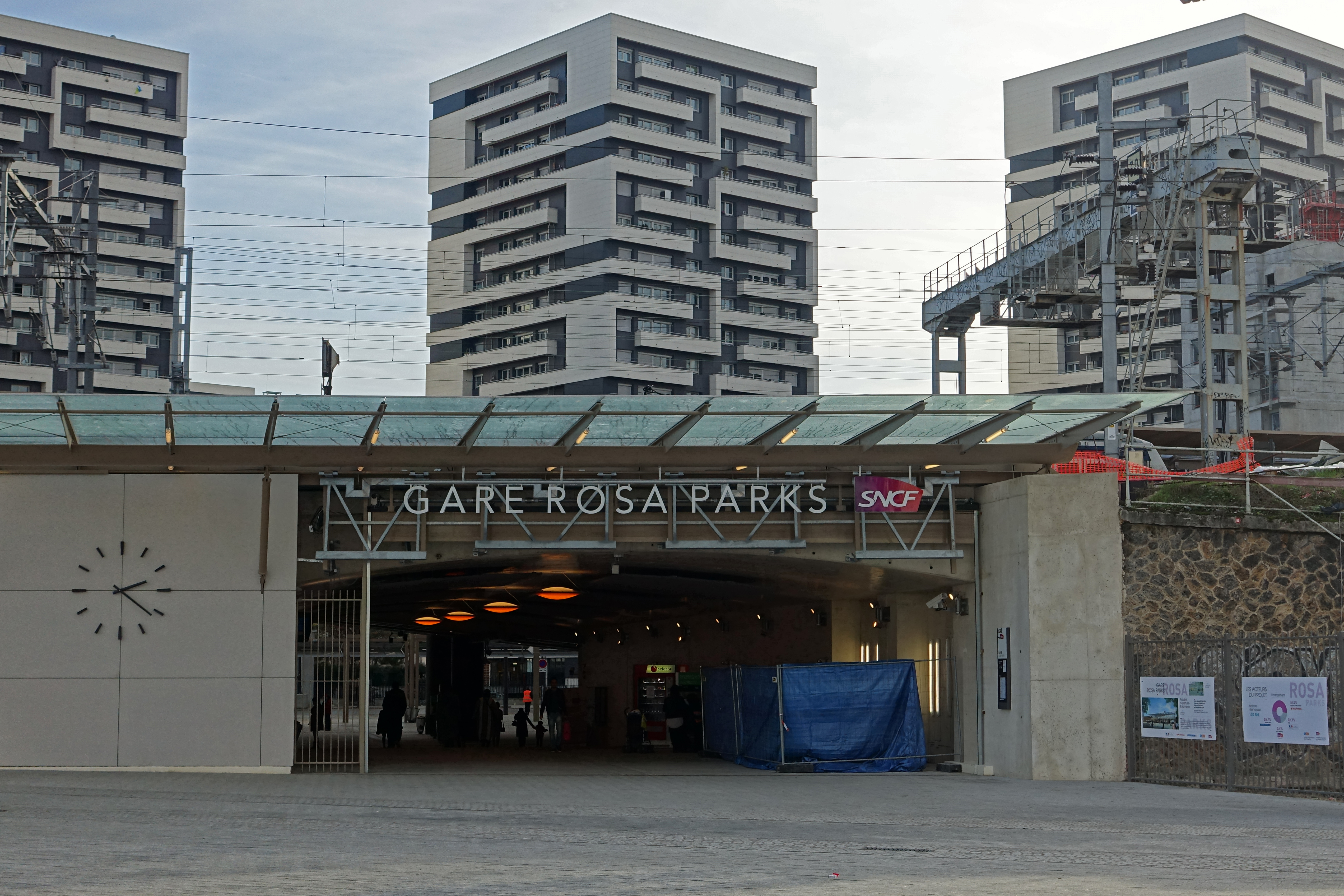 Rosa Parks RER station, Paris